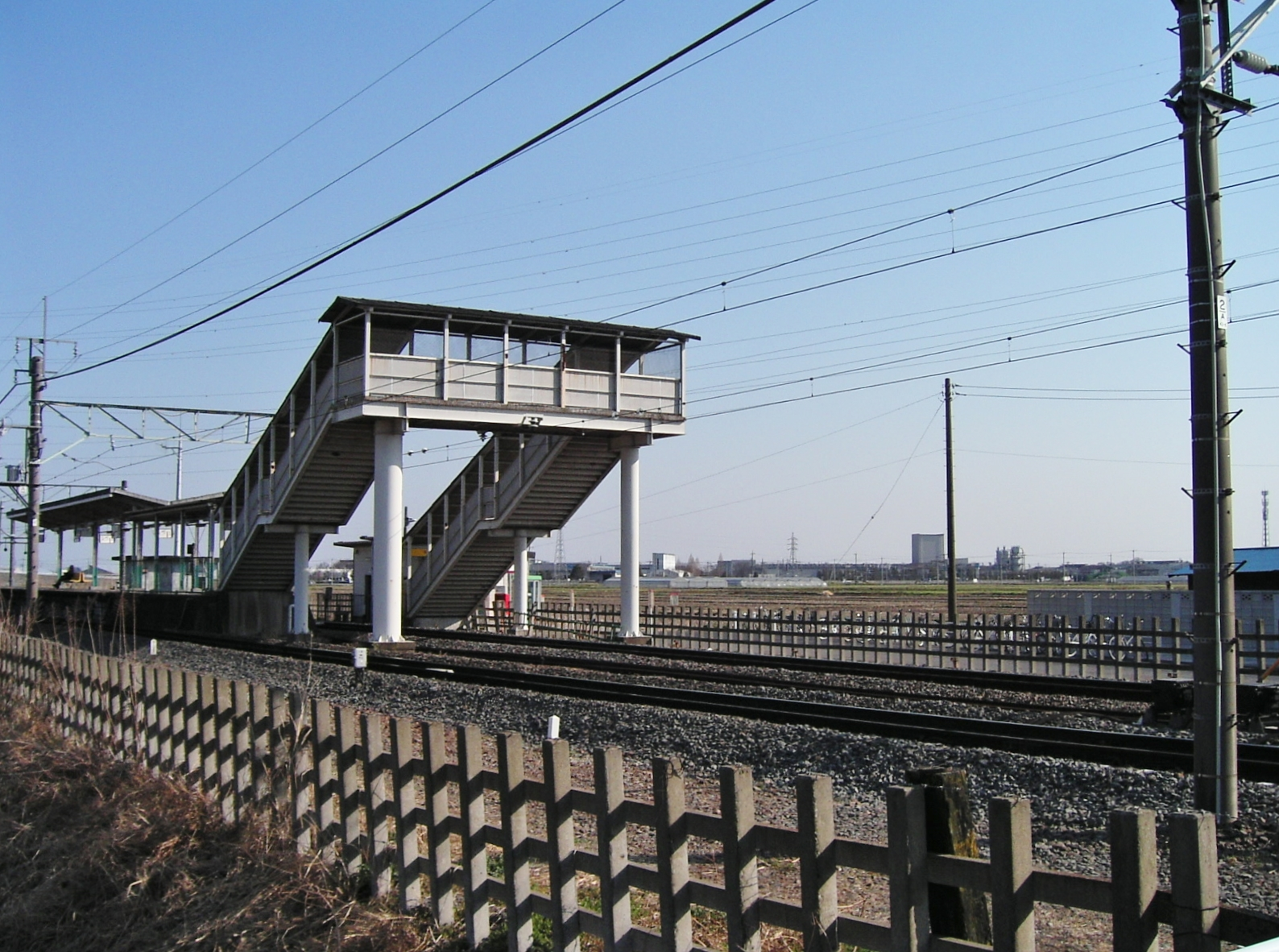 Agata station on the Tobu Isesaki Line in Ashikaga, Tochigi Prefecture, Japan, viewed from the north side of the tracks